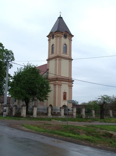 Church St. Petka in Banovci, CroatiaHrvatski: Pravoslavna crkva sv. Petke u Banovcima, u općini Nijemci.